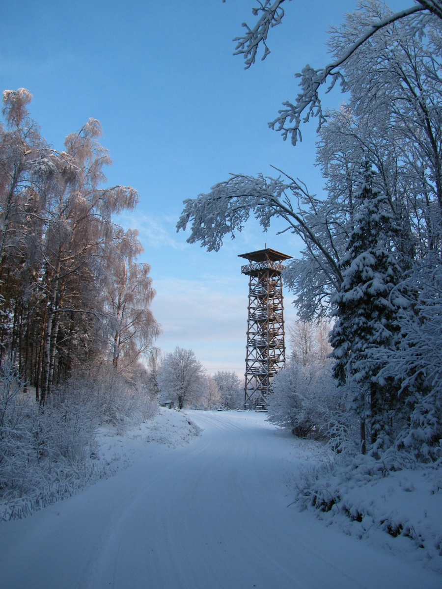 Harimäe lookout tower